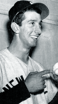 New York Yankees second baseman Billy Martin in a 1954 issue of Baseball Digest.